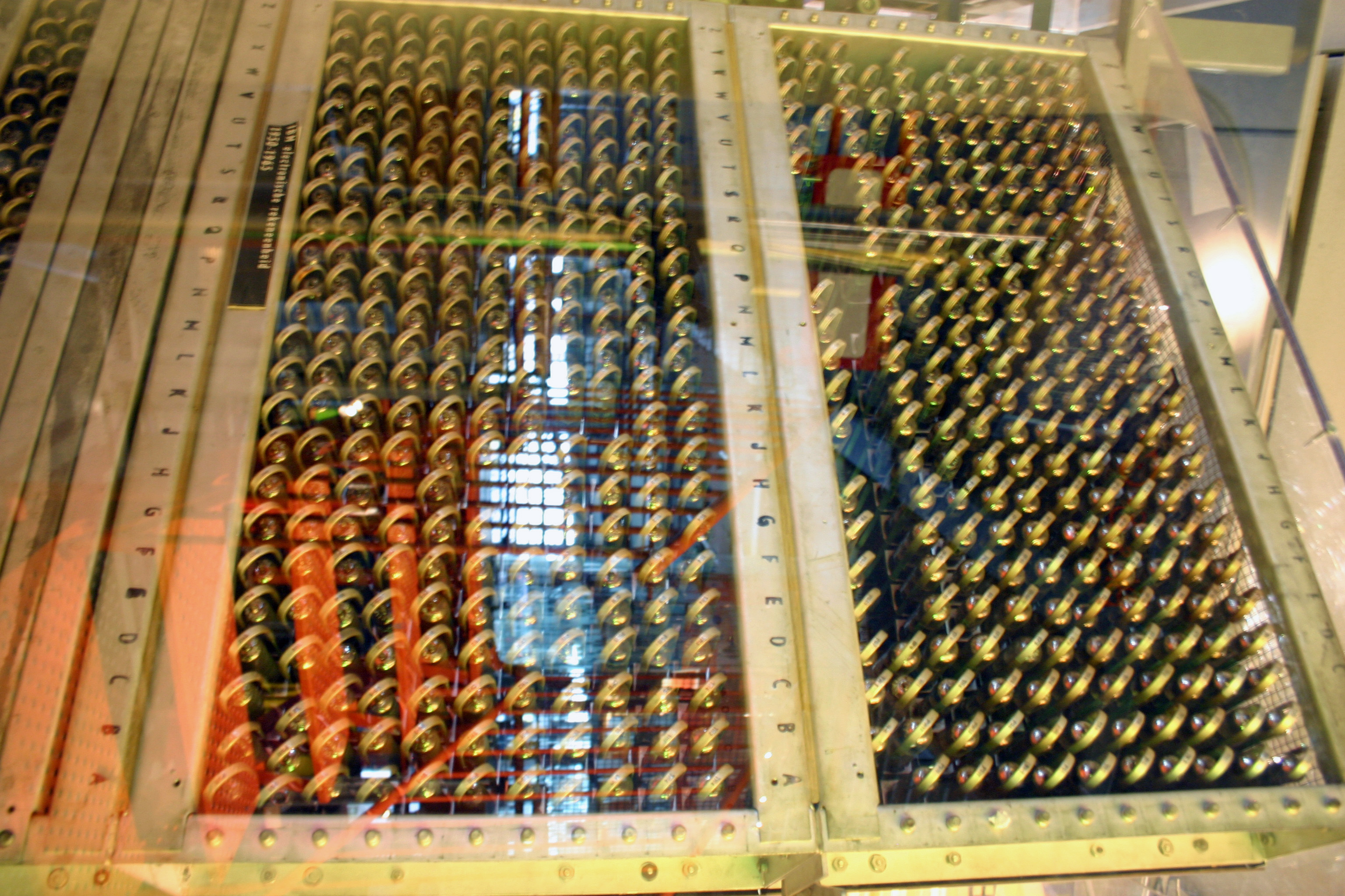 This programmable electronic calculator uses some 1400 electron tubes; its weight is more than 600 kilograms. Instead of using a keyboard and screen, input and output was by means of punched cards. The punched card machine (almost the same size as the 604 itself) is not shown here. The 604 was IBM's first step into the realm of electronic computers, and at the time had many innovative features. But it differs in so many ways from modern calculators (speed, size, ease of use, reliability, price...) that you can hardly compare them. Visit my blog at for science news and speculation.